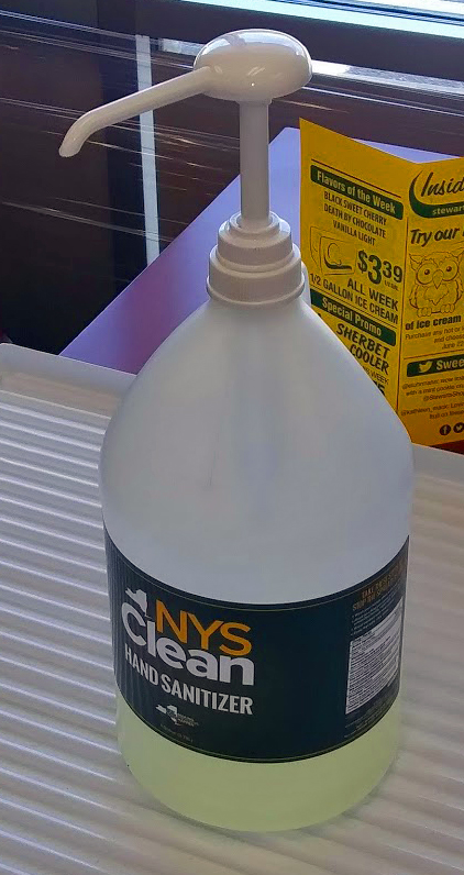 Bottle of state-manufactured NYSClean hand sanitizer for use by patrons at a Stewart's convenience store in Walden during the COVID-19 pandemic.